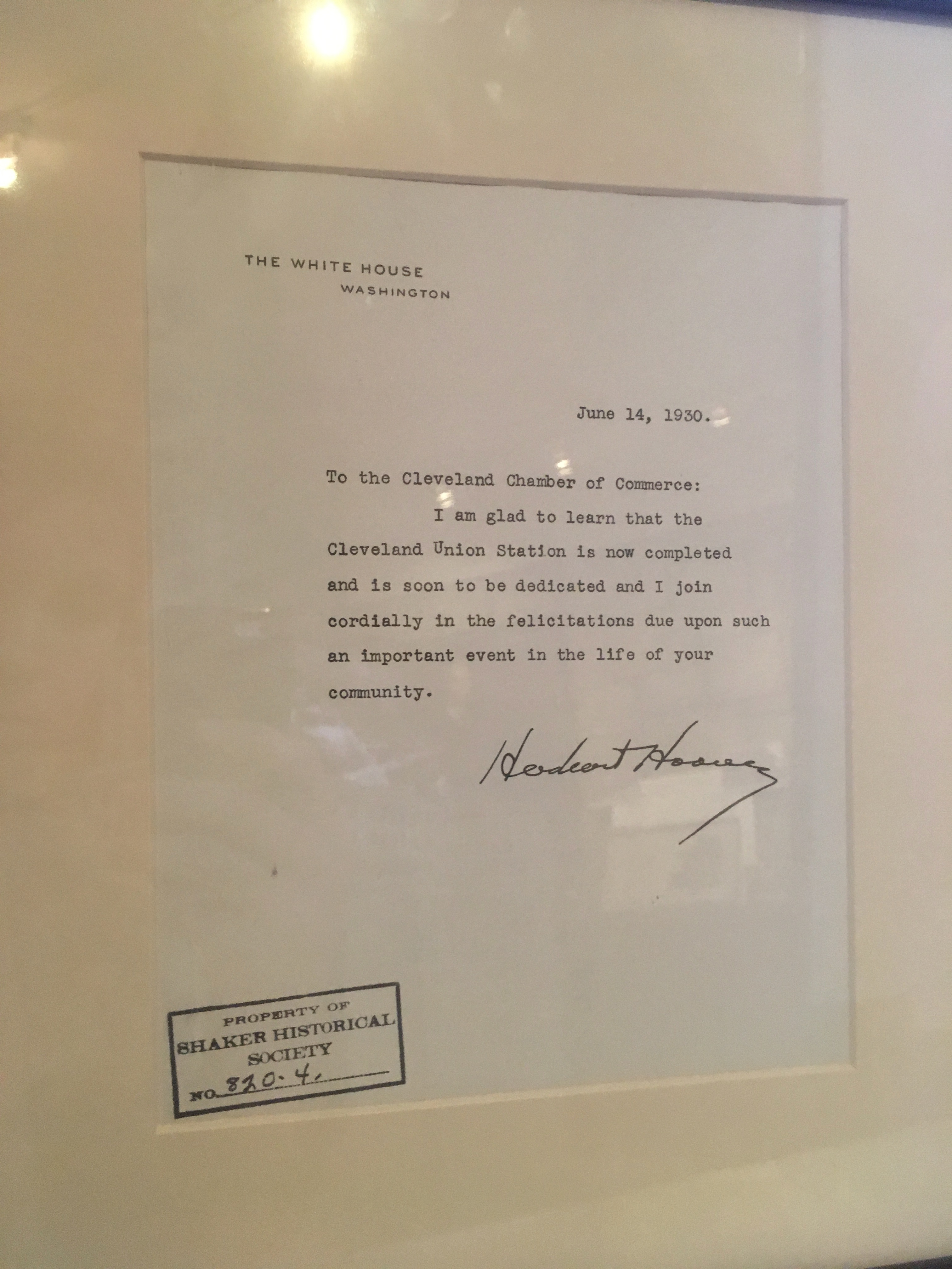 President Herbert Hoover congratulates the Cleveland Chamber of Commerce on the completion of Cleveland Union Terminal